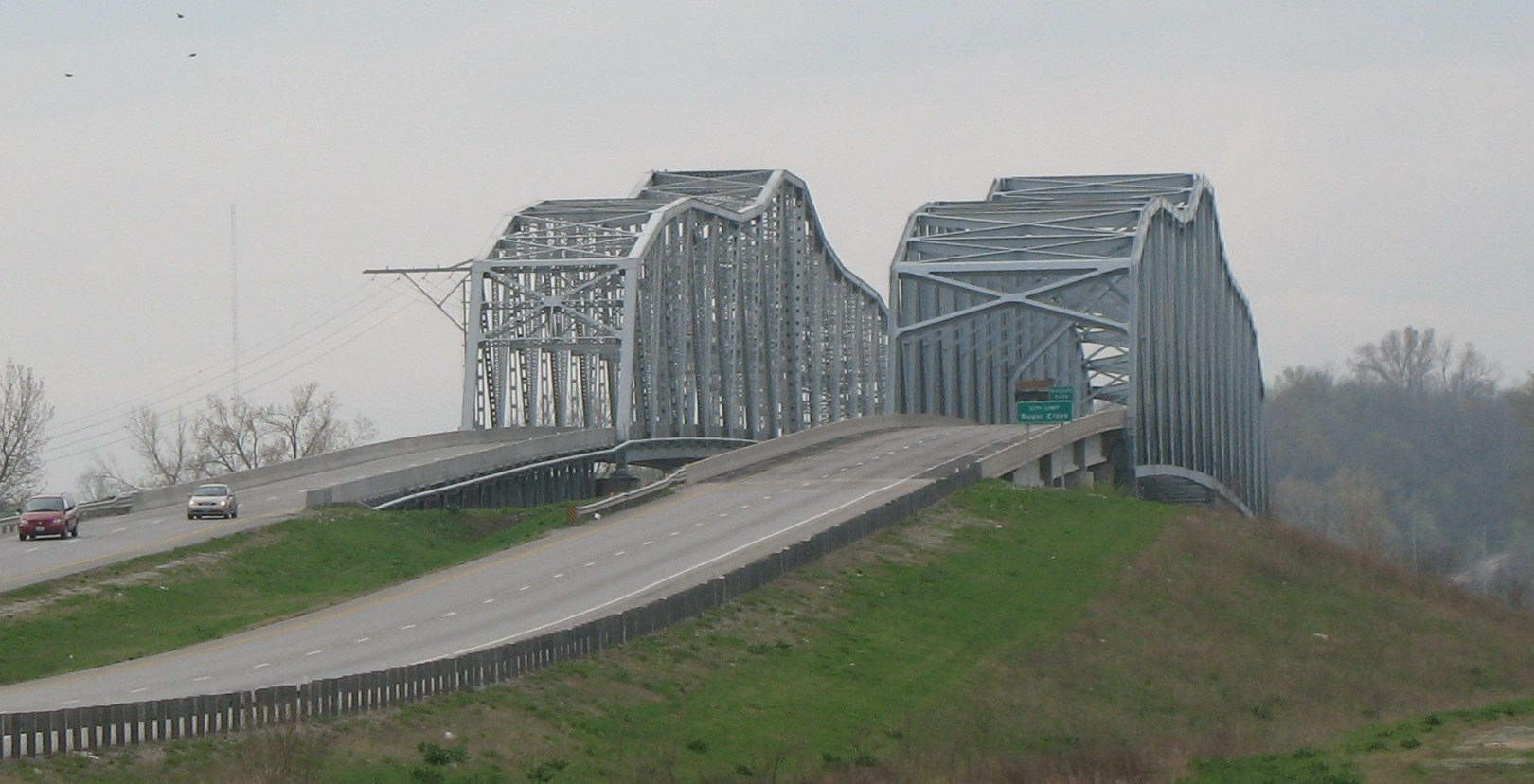 Liberty Bend Bridge from northwest.